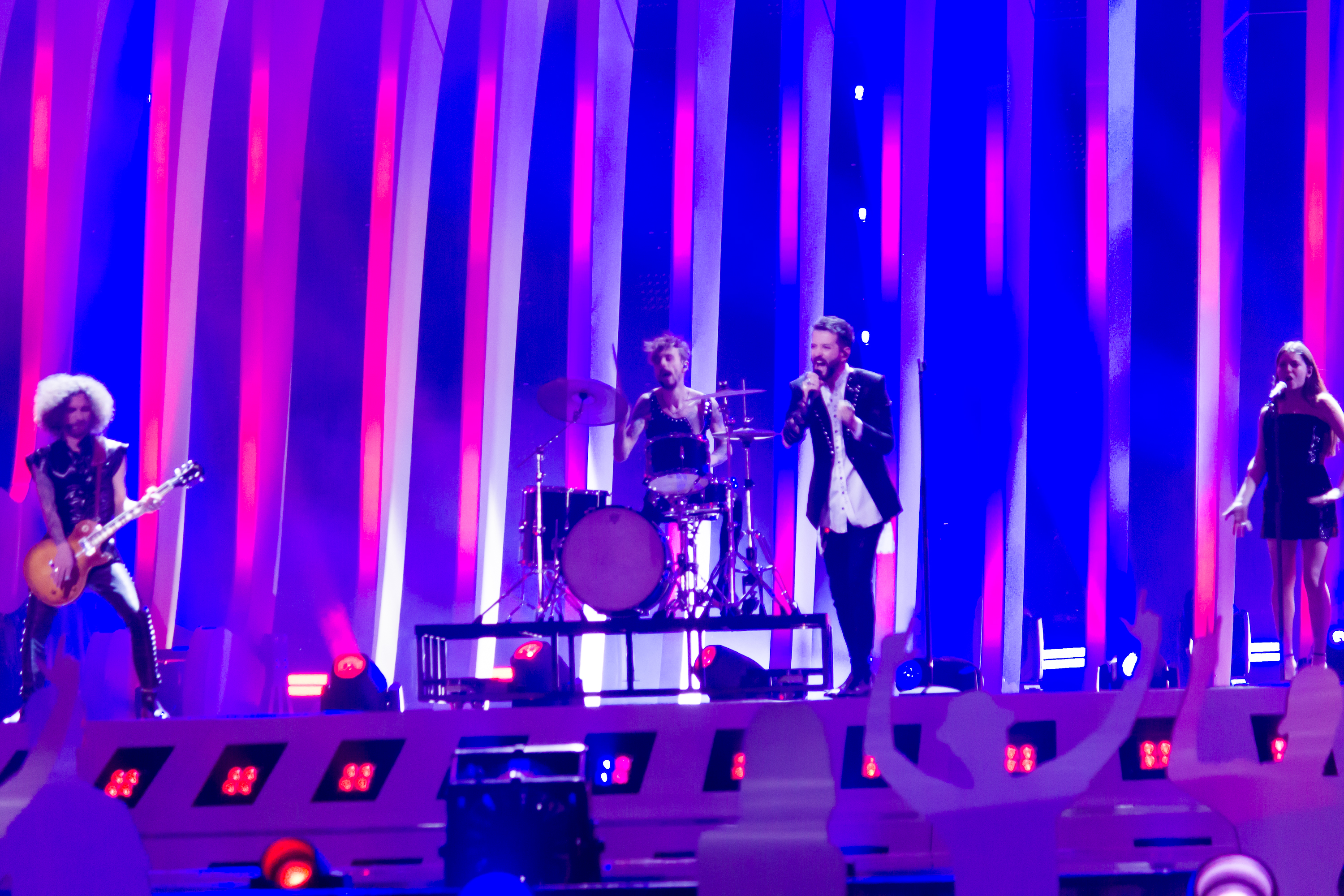 Eugent Bushpepa represents Albania at the 2018 Eurovision Song Contest.